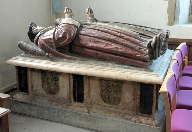 St Nicholas, Witham, Essex - Tomb chest